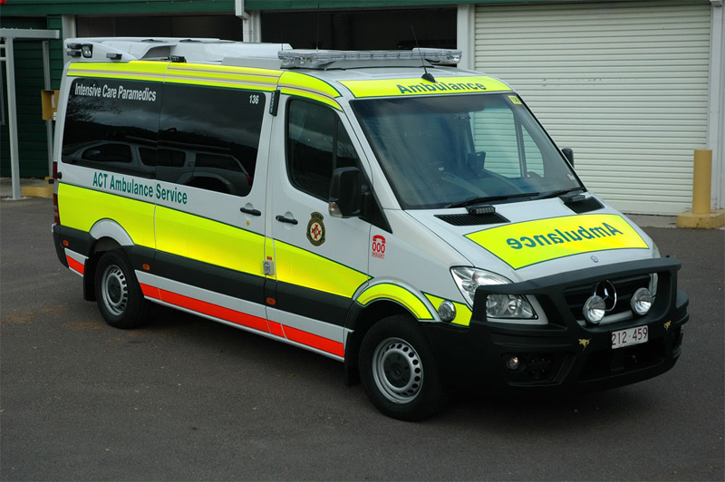 ACT Ambulance Service Mercedes-Benz Sprinter , with "AMBULANCE" in mirror writing ("ECNALUBMA").